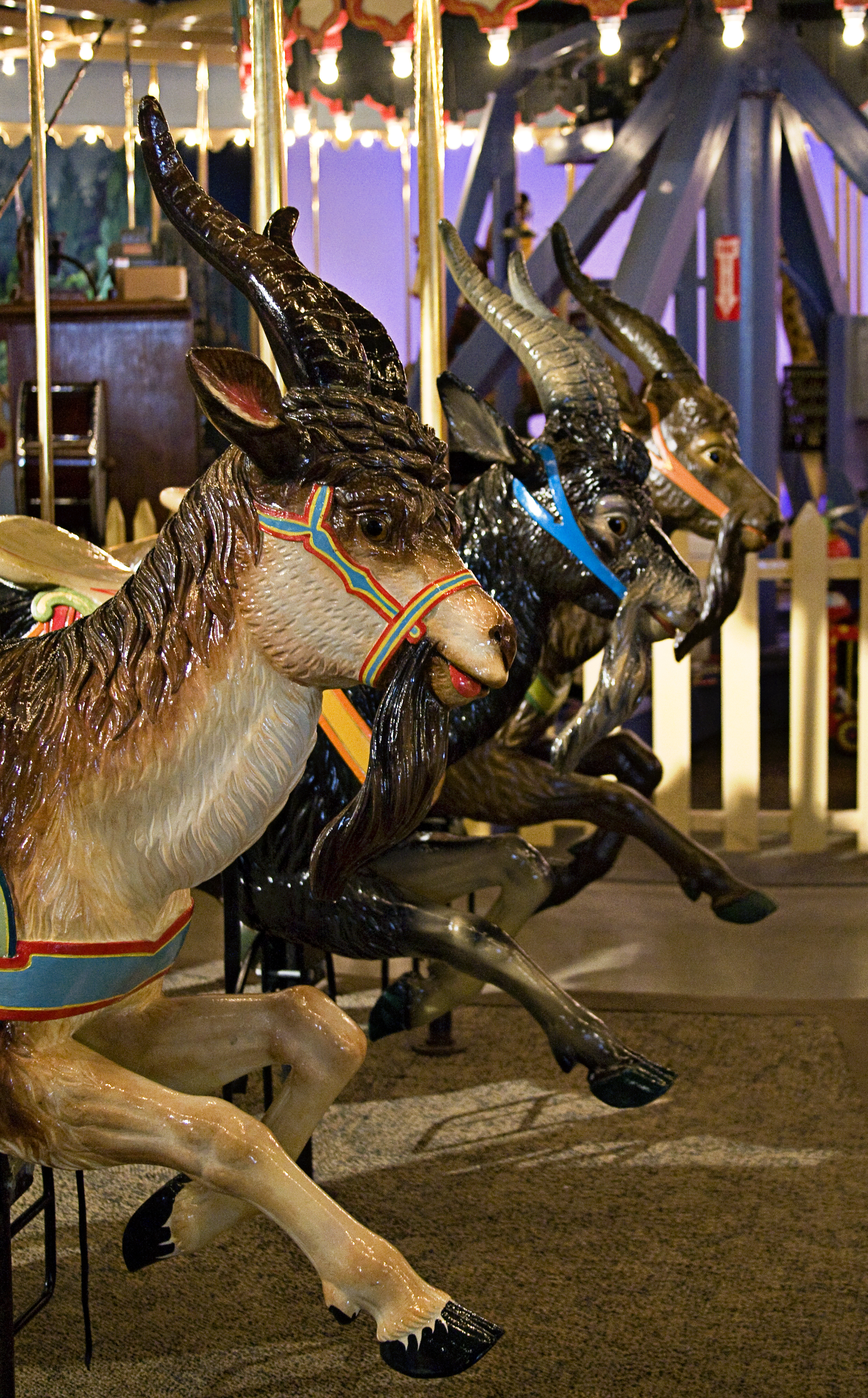 Three goats on the carousel at The Children's Museum of Indianapolis.